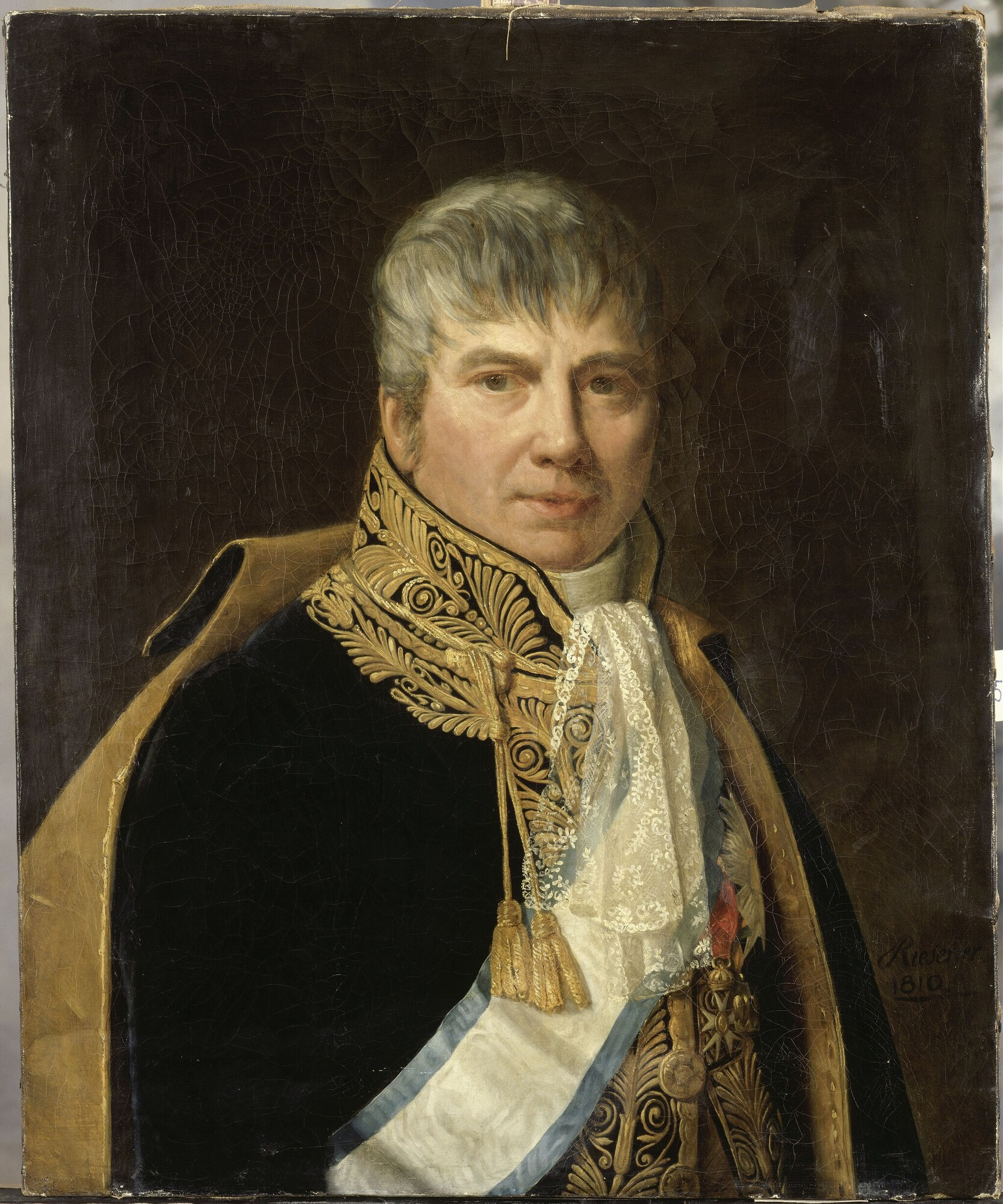 General Michel Ordener, portrait, man, general, order of the Legion of Honor, three quarter portrait, uniform